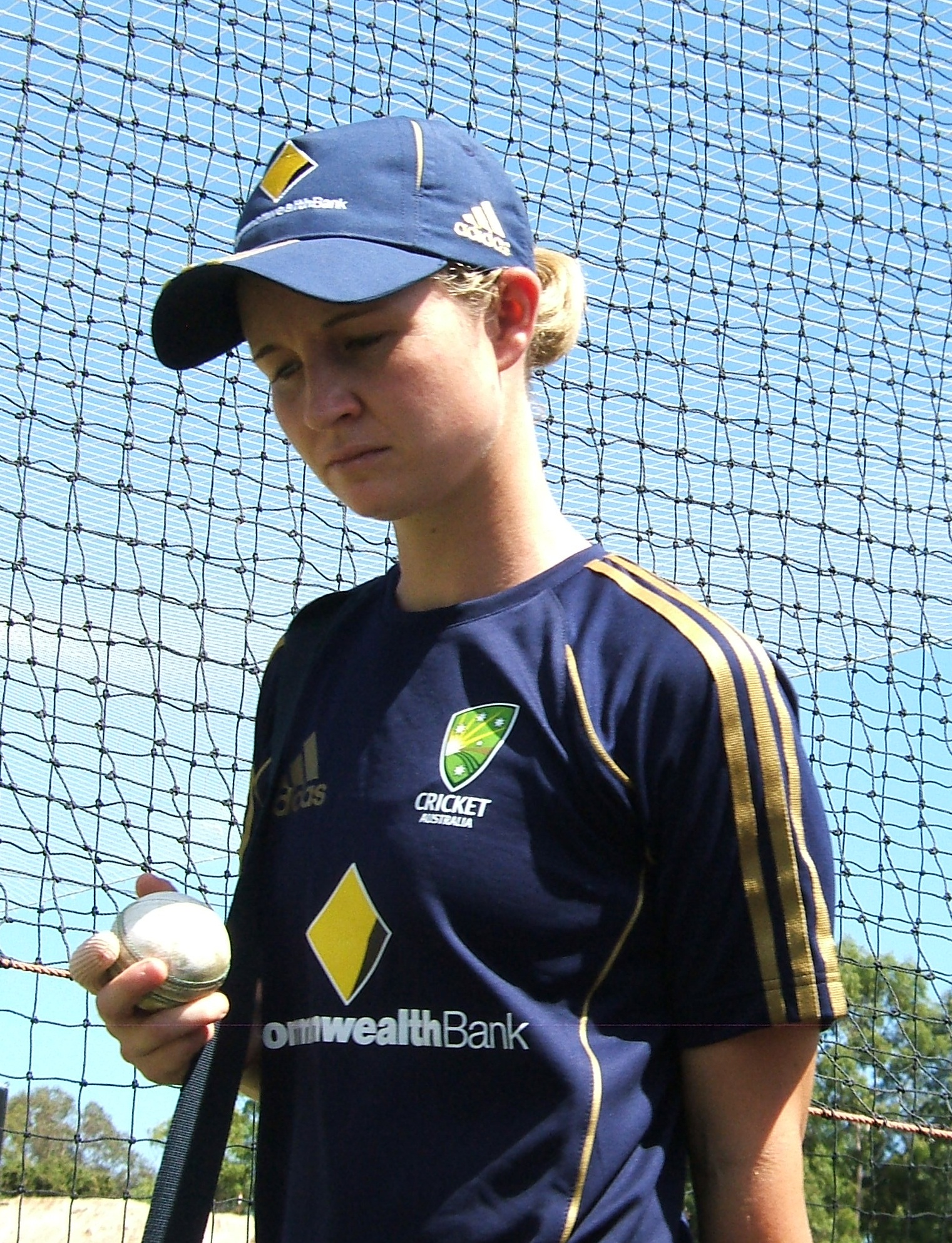 Named person engaging in named action at Adelaide Oval nets/training ground